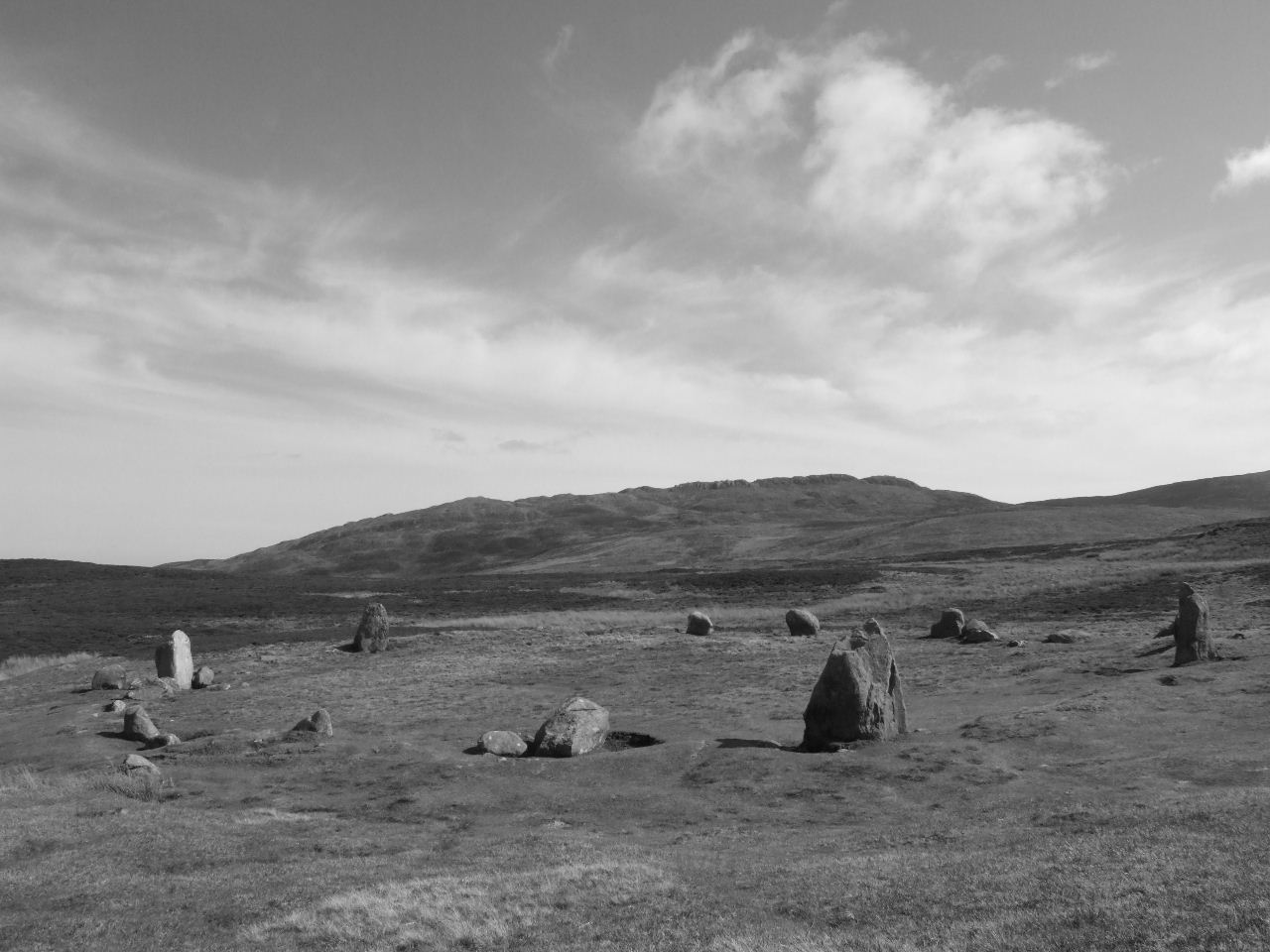 The Meini Hirion ("Druids Circle") stone circle with Tal y Fan mountain, above Penmaenmawr, Conwy County, Wales.